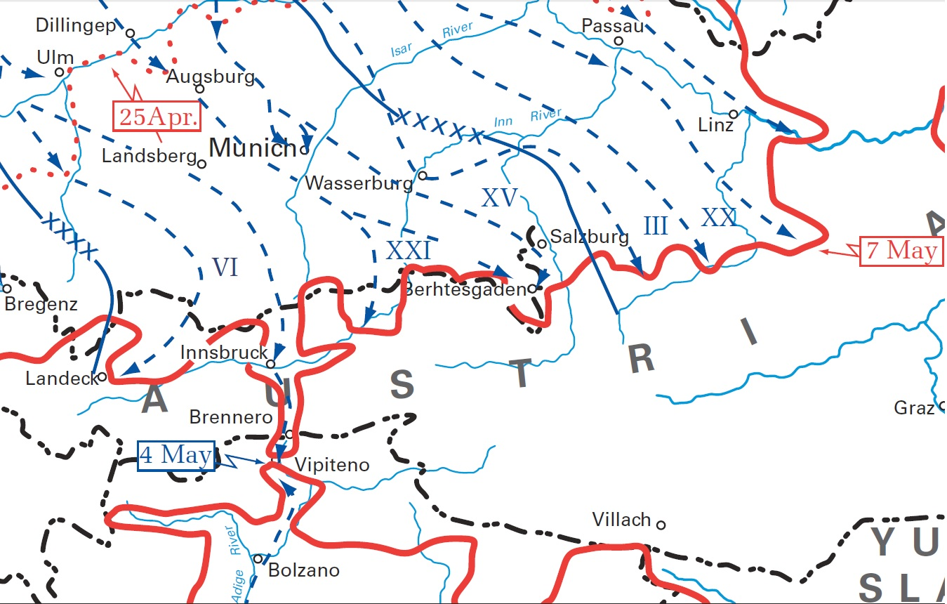 Detail of map showing path of US Army corps during final three weeks of World War II, emphasizing extreme southwest Germany and easternmost Austria